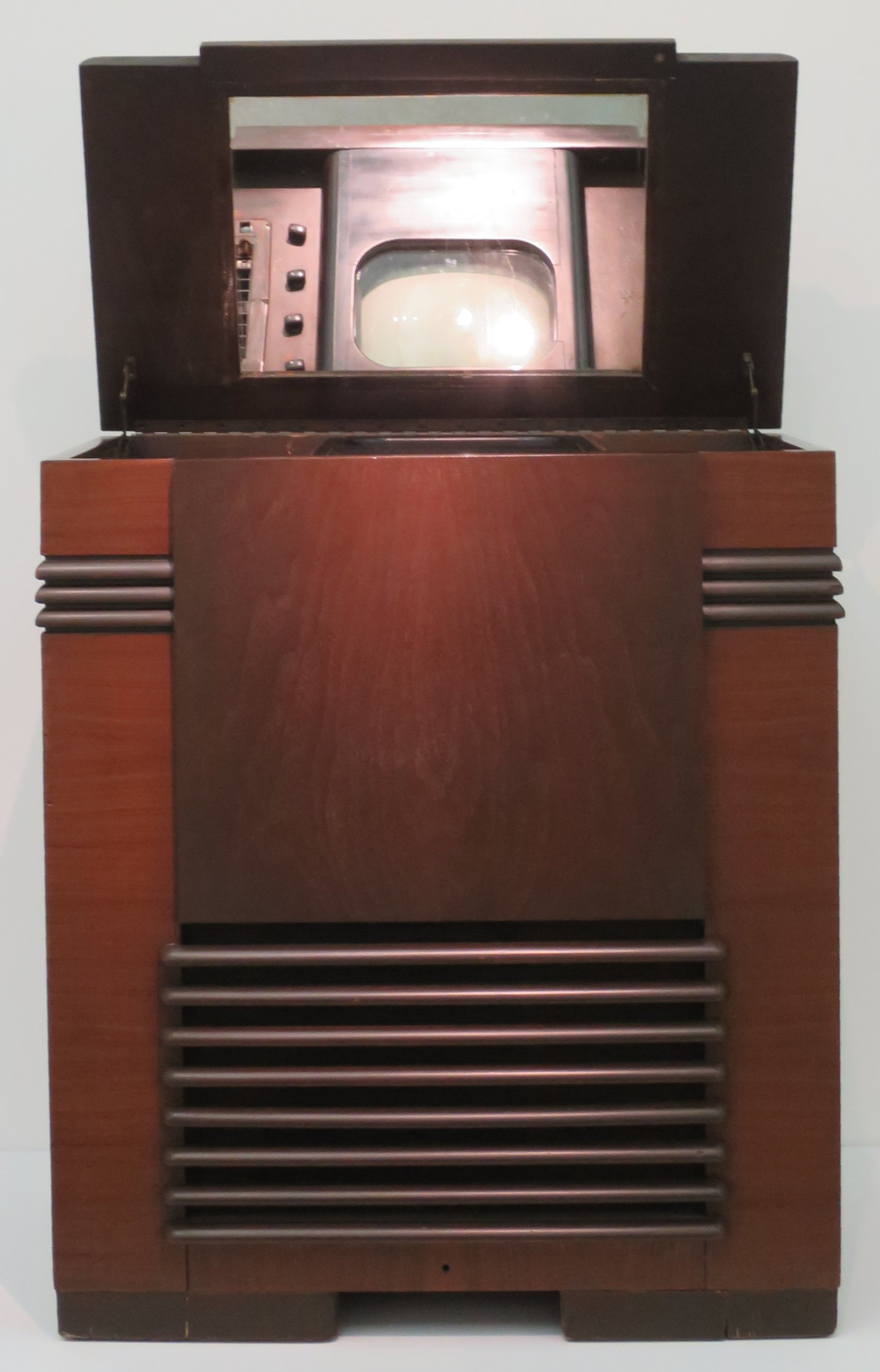 Television, RCA Victor TRK 12, 1939, Wolfsonian-FIU Museum